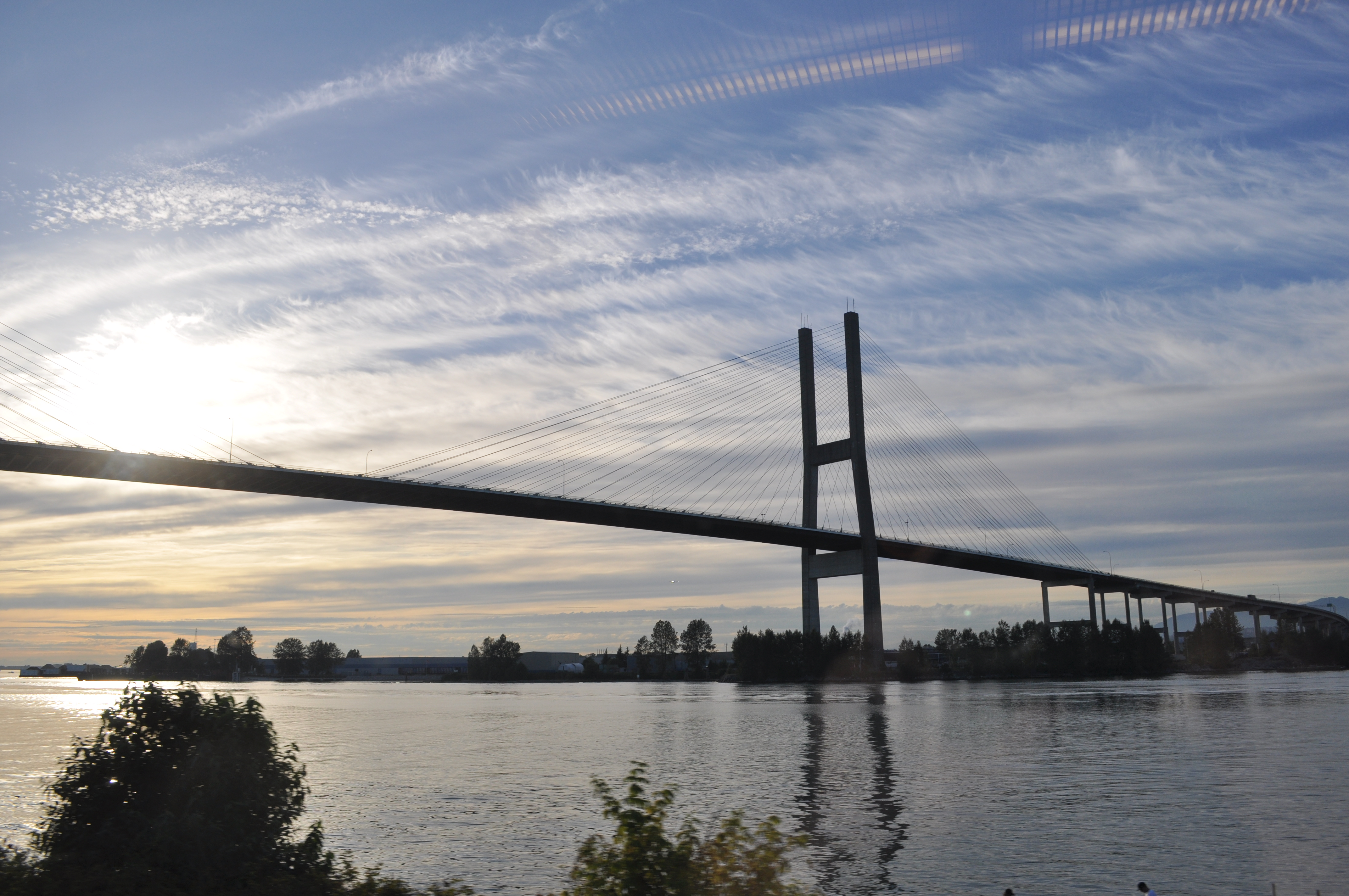 Alex Fraser Bridge, near Vancouver, BC.